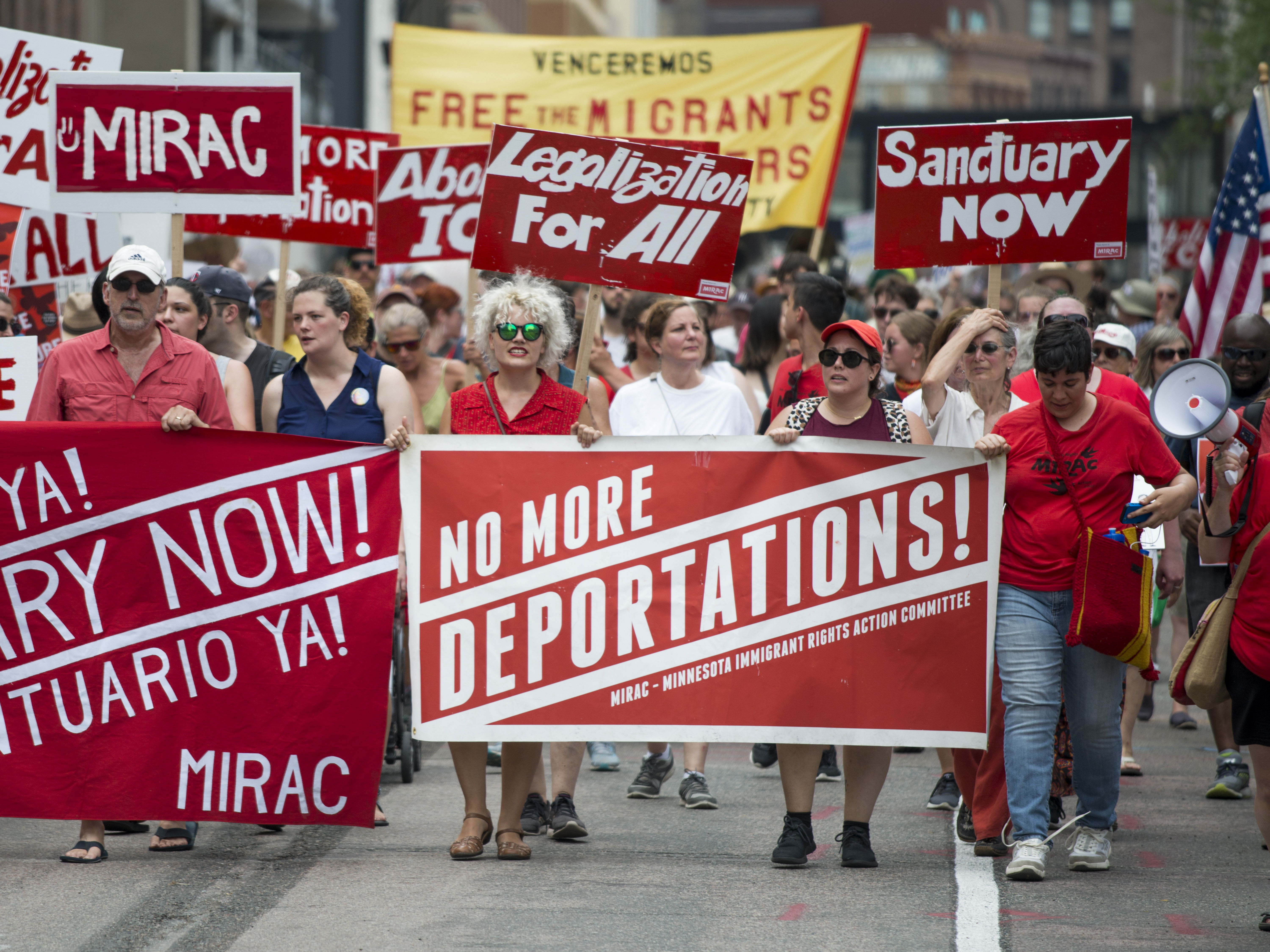 Minneapolis, Minnesota June 30, 2018 About 10,000 people gathered downtown and marched through the streets to protest against immigrant children being taken from their families. The protesters called for ICE (U.S. Immigration and Customs Enforcement) to be abolished. On April 6, Attorney General Jeff Sessions announced Donald Trump's new "zero-tolerance policy" and began to prosecute all border crossings, a misdemeanor offense, regardless of whether they cross alone or with their children. The immediate effect, because children are not prosecuted with their parents, was thousands of immigrant children separated from their parents. The children are being held in detention centers and foster homes around the country. Some parents have already been deported, but their children remain in the USA. Hosted by: Navigate MN / Unidos MN is a millennial driven Latinx based organization that builds power for gender, racial and economic justice. Hosted by: CTUL (Centro de Trabajadores Unidos en la Lucha) organizes low-wage workers to fight for higher wages and better working conditions. 2018-06-30 This is licensed under the Creative Commons Attribution License. Give attribution to: Fibonacci Blue